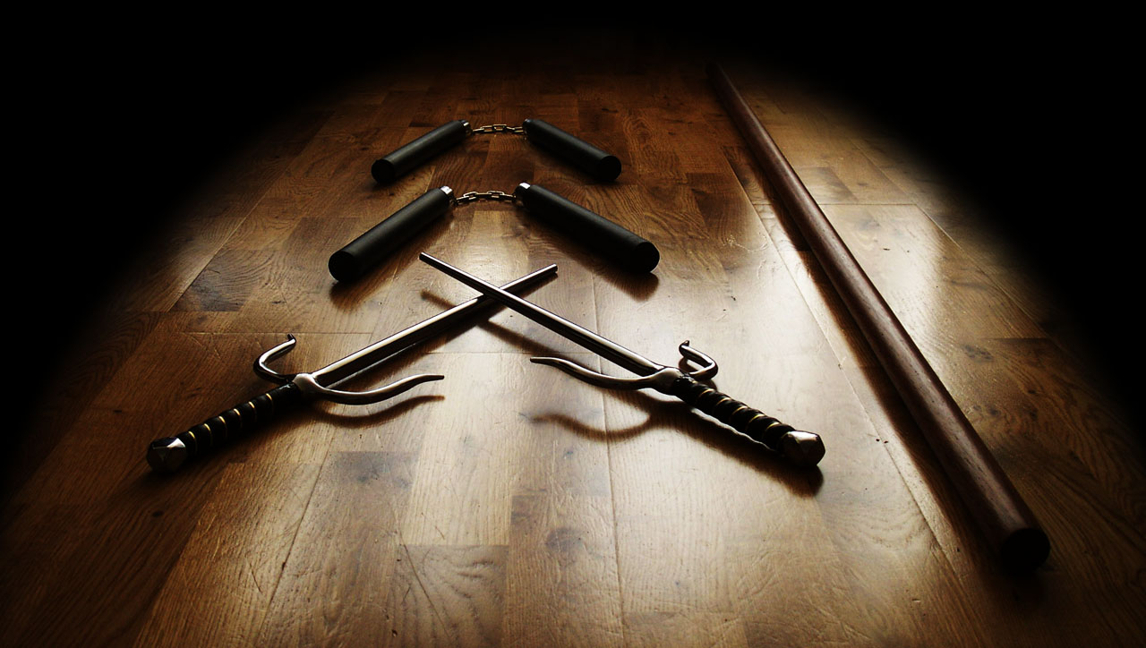 Got the bo when training ninjutsu. The nunchucks are perfect for relaxation and the sai just look awesome.